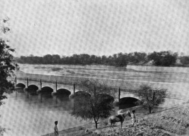 A picture of the Budki superpassage over the Sirhind canal in Punjab, India. This is a 1905 picture.